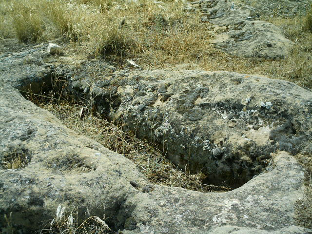 An anthropomorphic tomb in Villaverde, Carrascosa del Campo, in the municipality of Campos del Paraíso, Province of Cuenca, Spain.